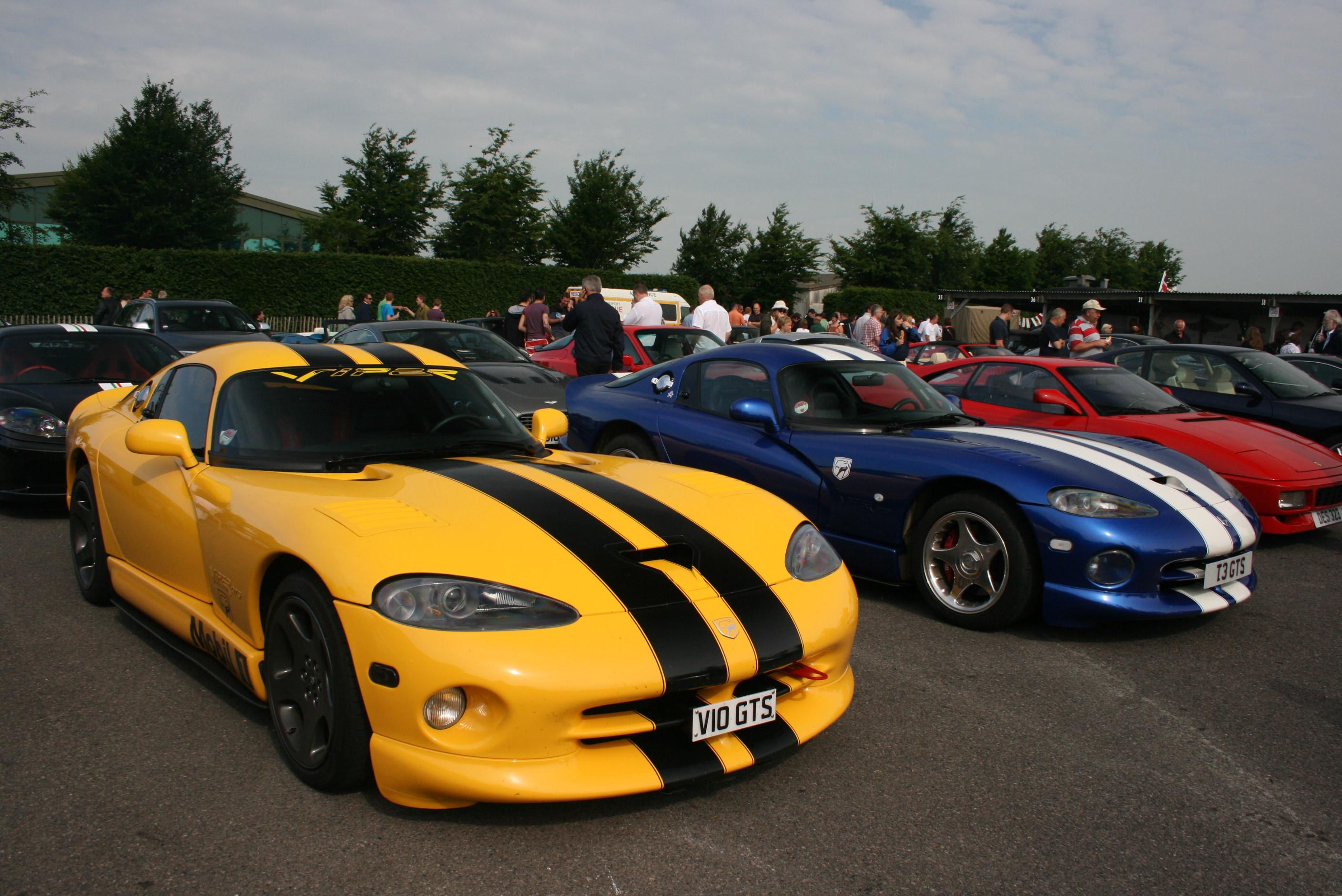 Pair of Vipers